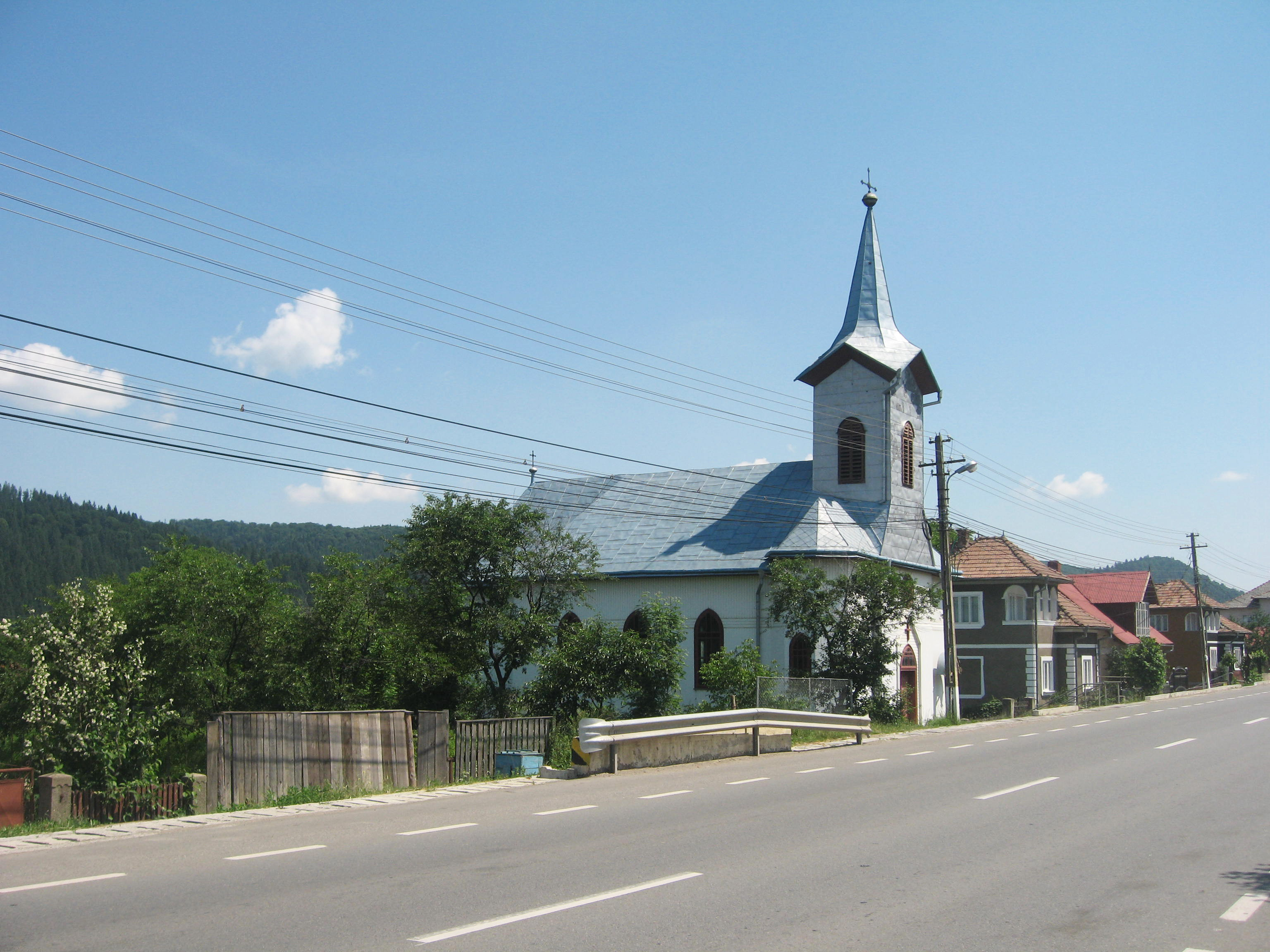 The Roman-Catholic Church in Frasin, Suceava County, Romania